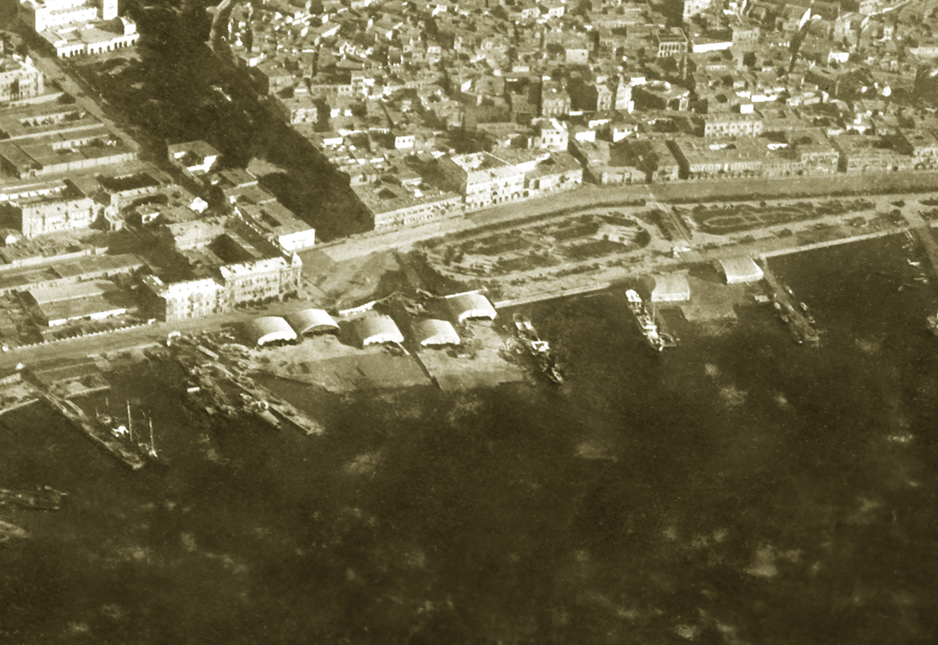 Naval Aviation Officer's School in Baku.